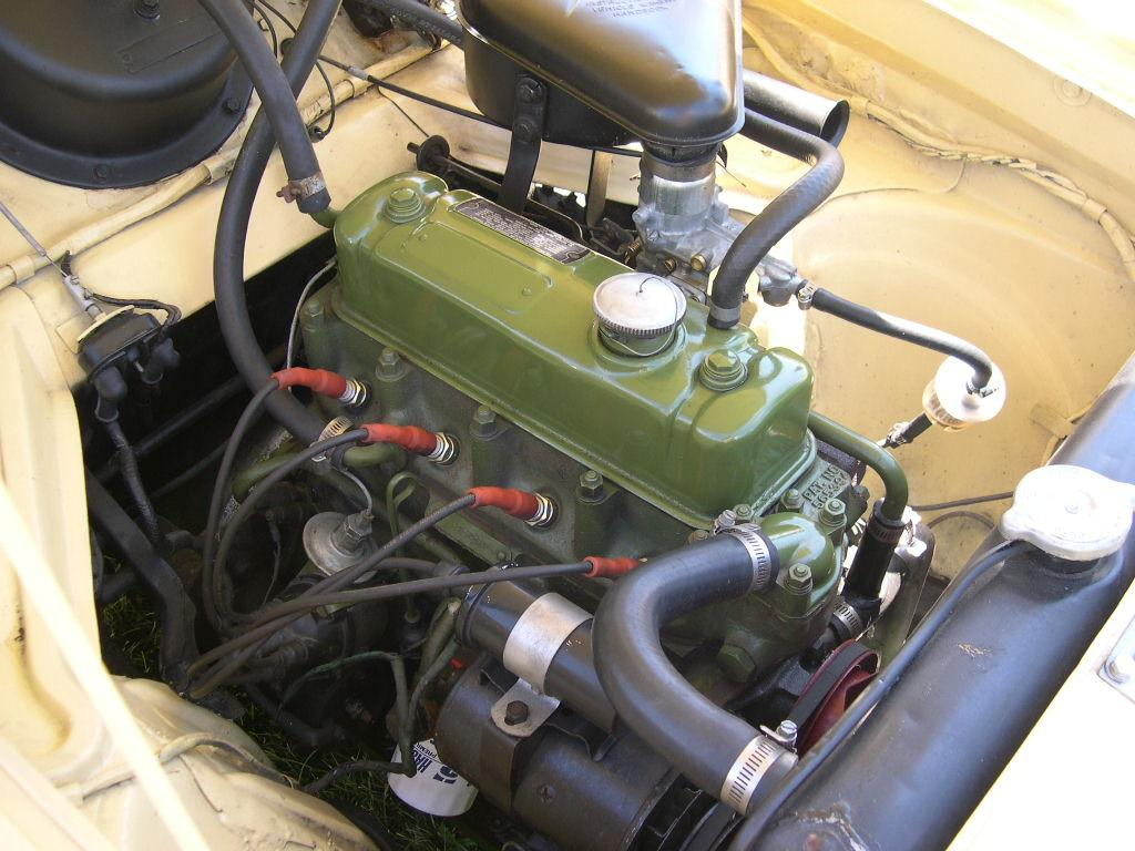 Nash Metropolitan Series 3 Austin 1500 B-Series engine Source: Photographed at the Bay State Antique Automobile Club's July 10, 2005 show at the Endicott Estate in Dedham, MA by User:Sfoskett